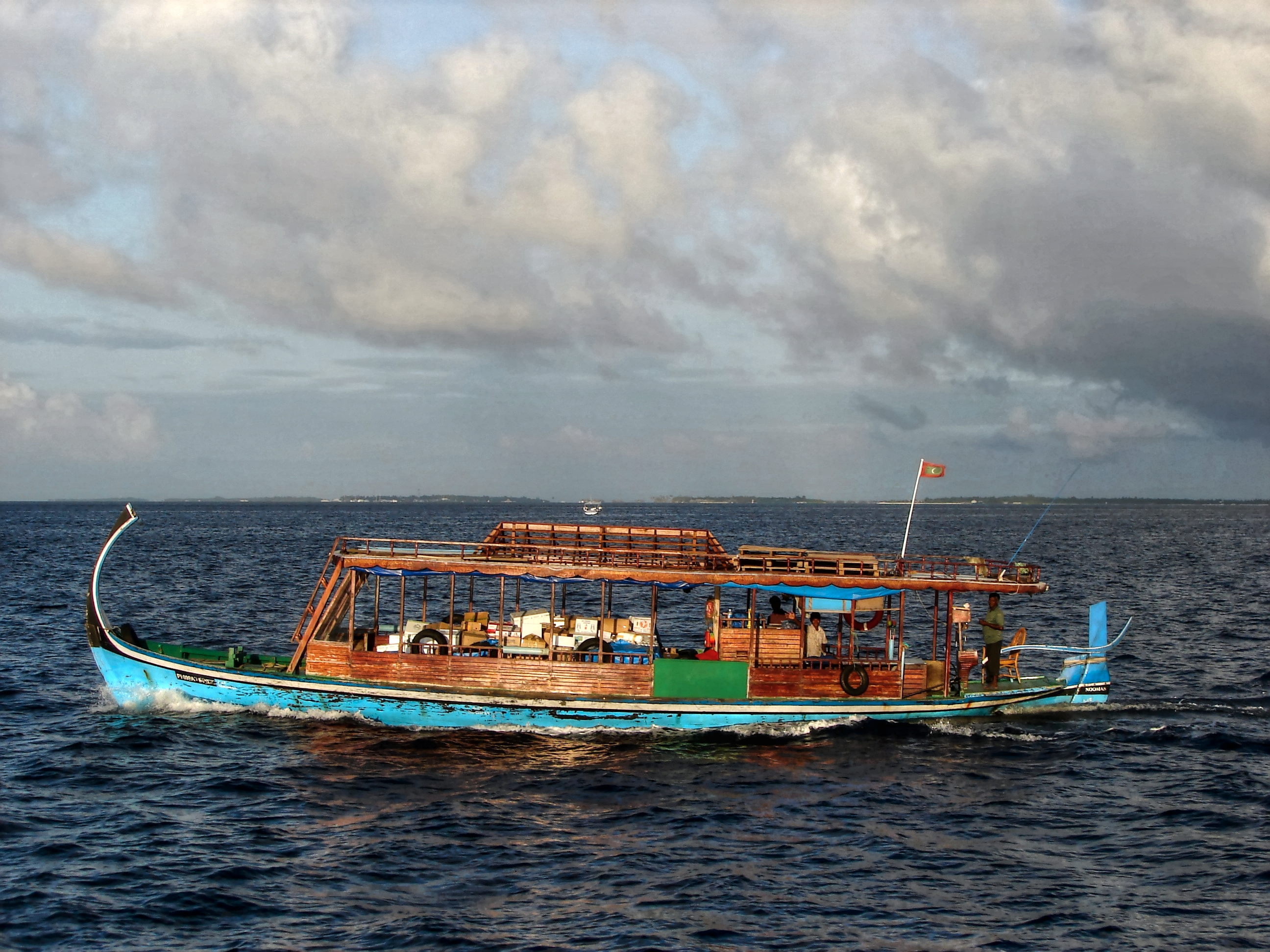 Dhoni in Maldives